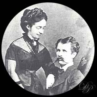 Louis von Hoven / Ludwig Johann Beethoven / son of Karl Beethoven / great-nephew of Ludwig van Beethoven